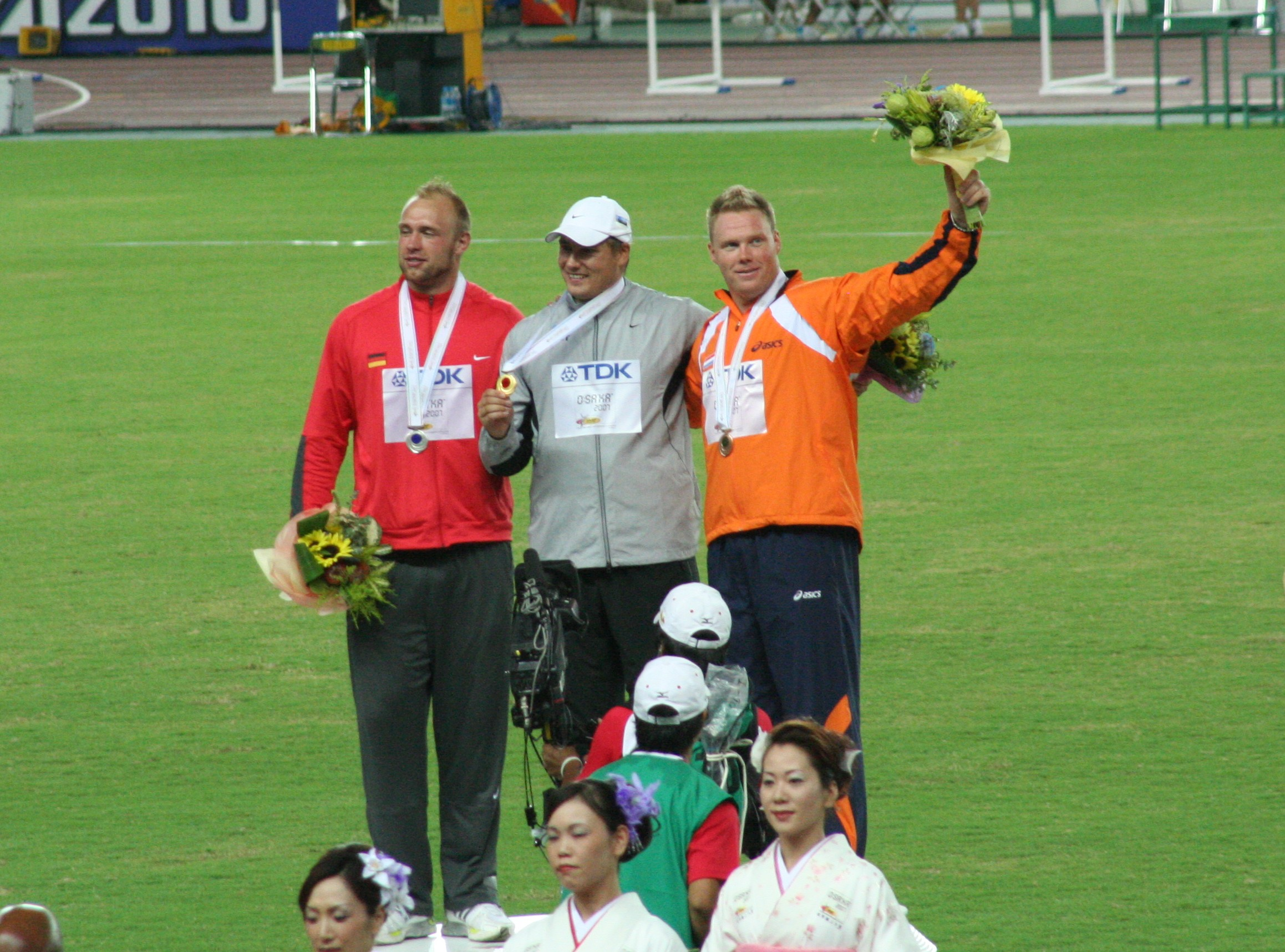 World Athletics Championships 2007 in Osaka - Victory ceremony for the men's discus throw - includes winner Gerd Kanter (middle), second Robert Harting (left), third Rutger Smith (right)